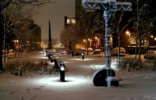 Place d'Youville, Montreal, Quebec, Canada, looking east